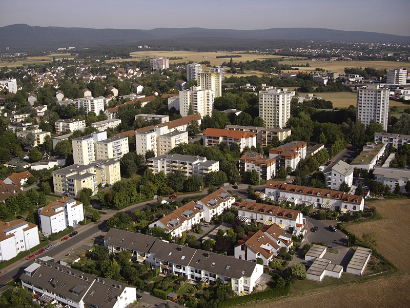 Aerial view of Steinbach am Taunus